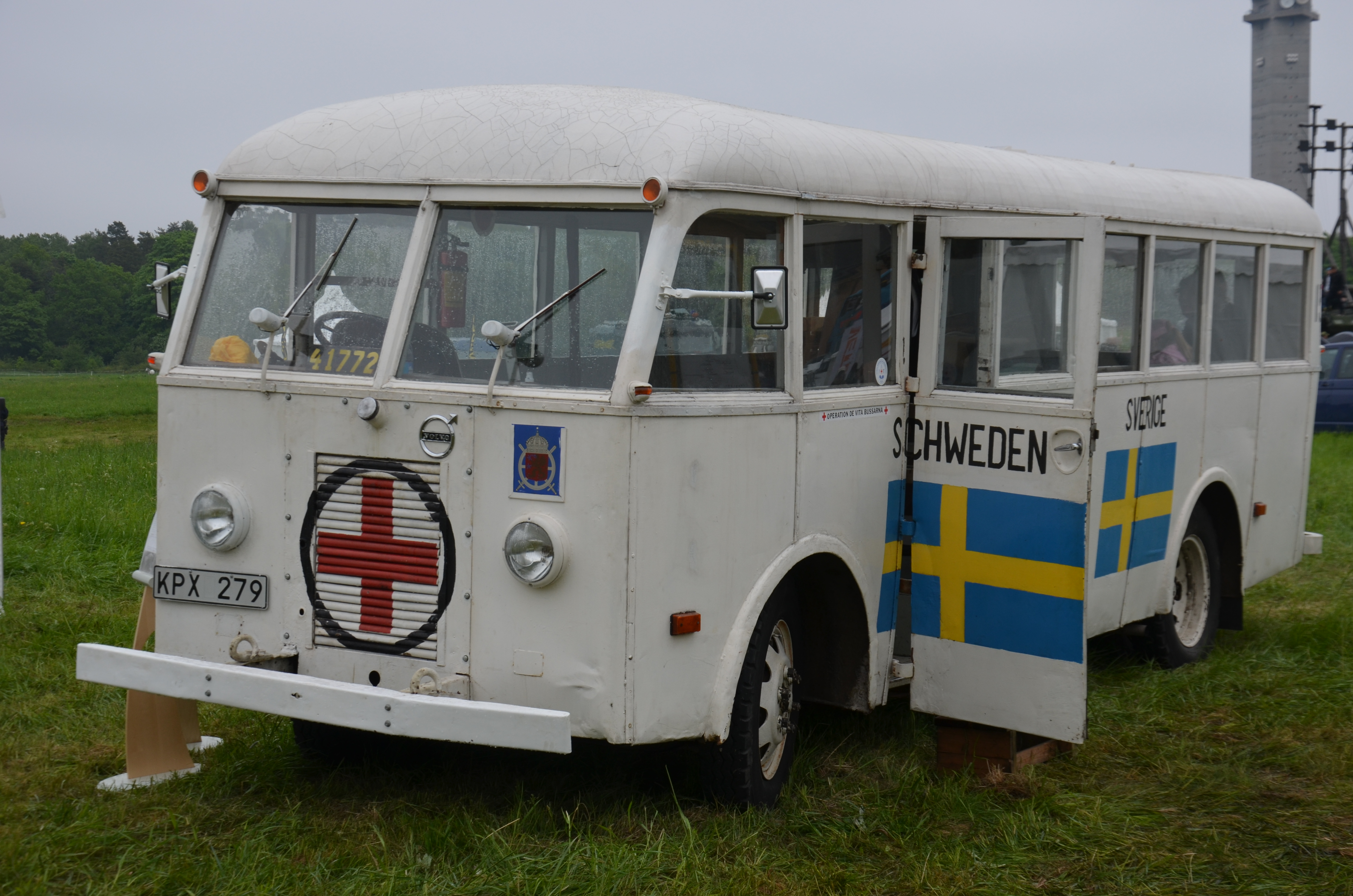 One of five existing busses used by the Folke Bernadotte refugees evacuation expeditions to Germany spring 1945